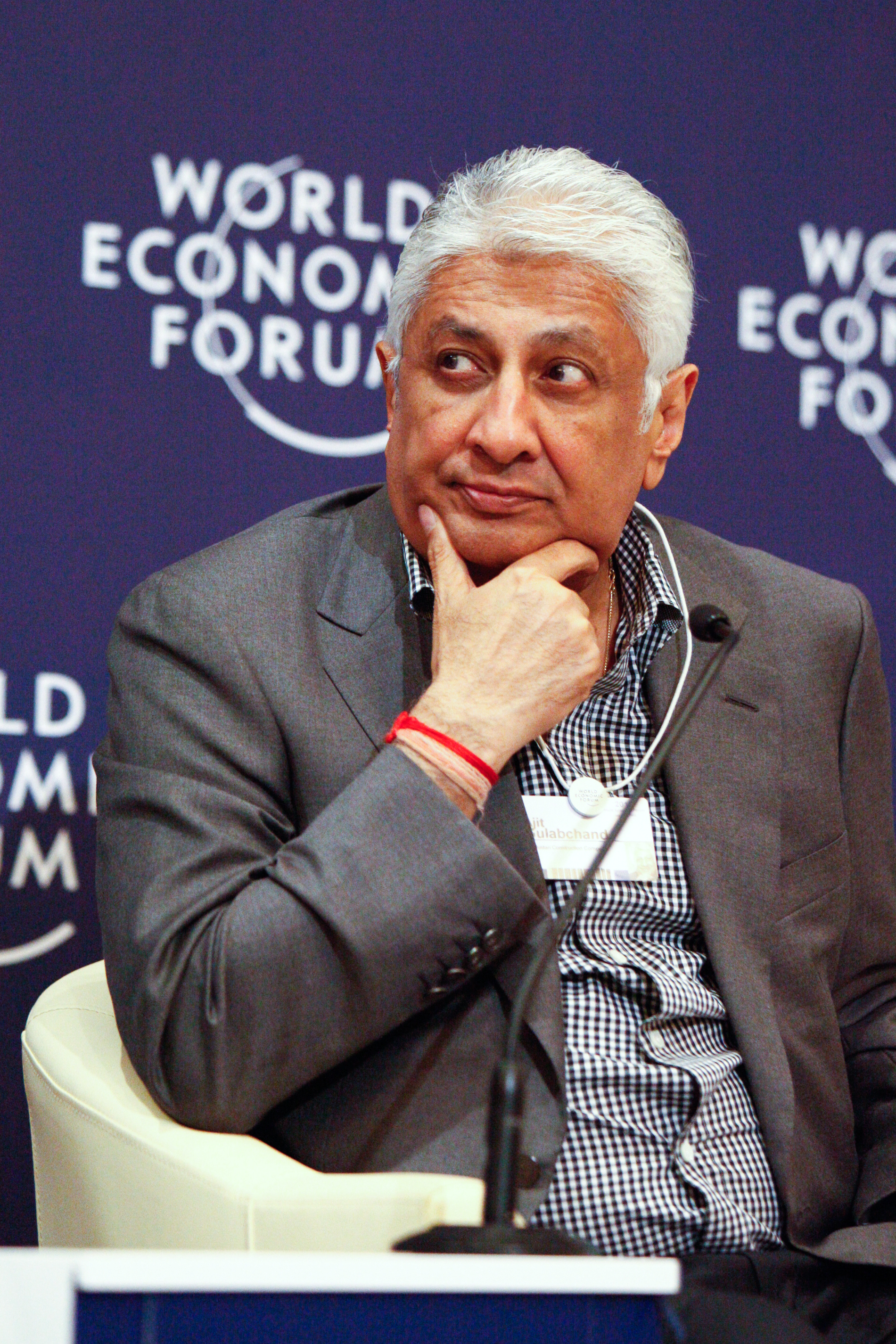 JAKARTA/INDONESIA, 12JUN11 - Ajit Gulabchand, Chairman and Managing Director, Hindustan Construction Company, India; Global Agenda Council on Urbanization, captured during Building around Bottlenecks: Upgrading Asia's Infrastructure at the World Economic Forum on East Asia in Jakarta, Indonesia, June 12, 2011. Copyright World Economic Forum ( by Sikarin Thanachaiary